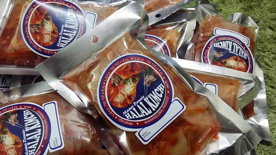 Mama Dannie Halal Kimchi Halal Kimchi factory can be found in Ampang, Kuala Lumpur, Malaysia Call 017-6517422 or 017-3123386